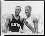 Jesse Owens with Ralph Metcalfe at track and field tryouts at Randall's Island Stadium in New York